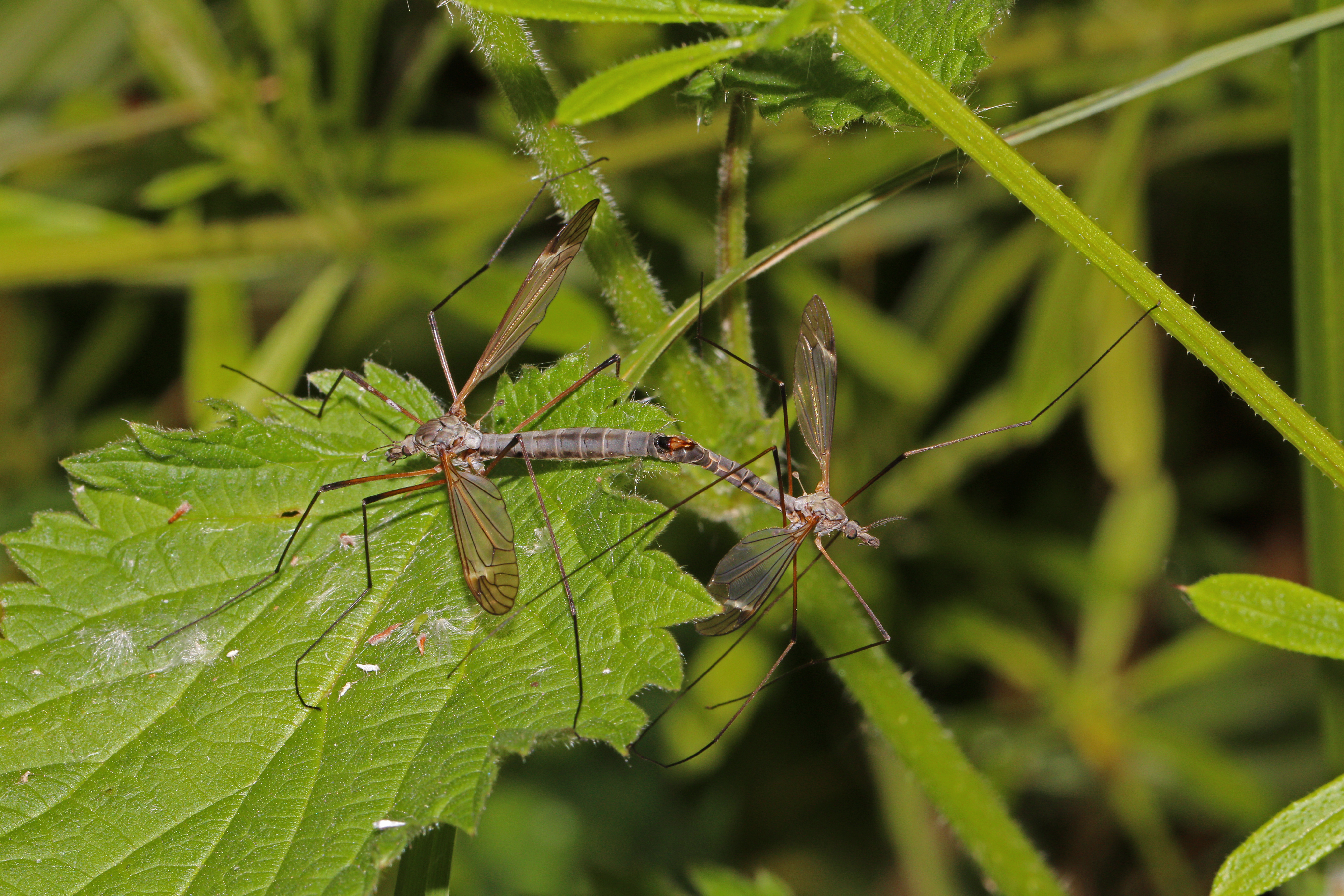 Crane flies (Tipula maxima) mating, Barton Fields, Oxfordshire